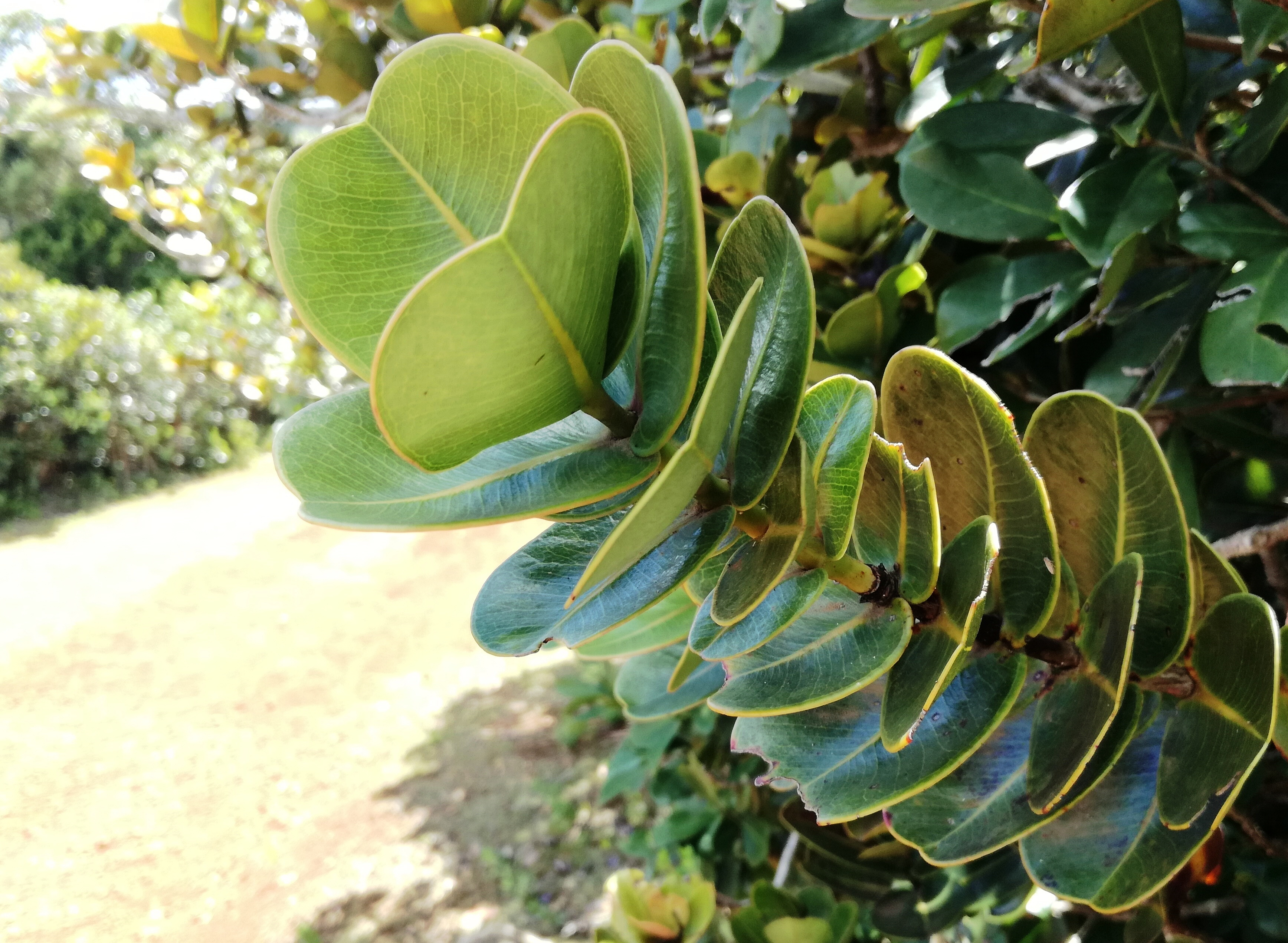 Diospyros revaughanii -Black River Gorges